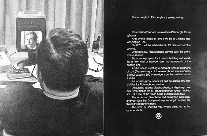 AT&T Bell advertisement in Esquire magazine announcing commercial availability of video phone service.